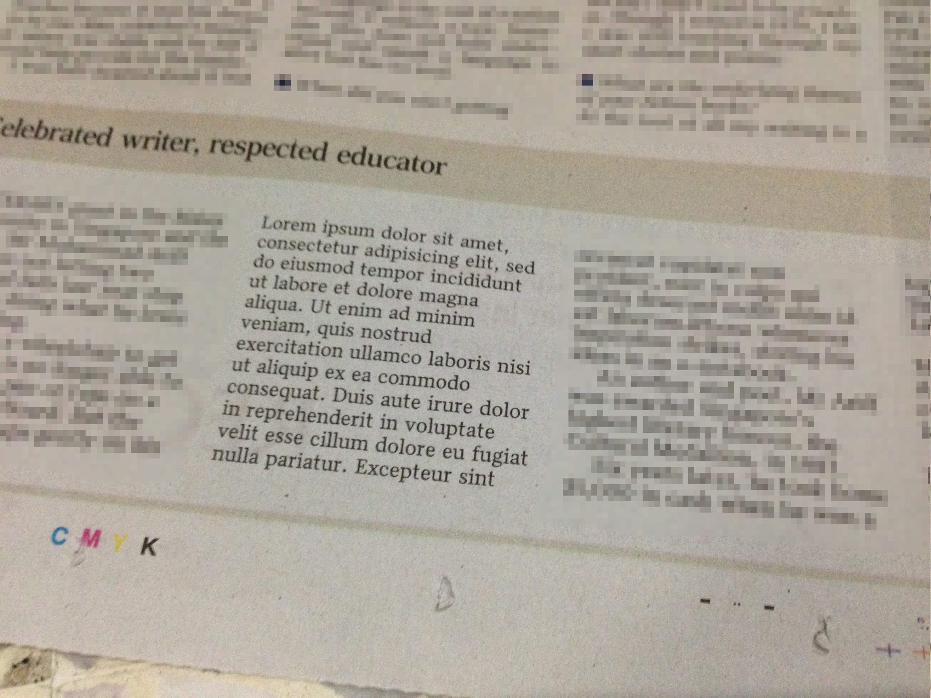 Greeking in the form of a lorem ipsum placeholder text that was inadvertently published in the newspaper article Maryam Mokhtar (26 April 2014). "Literary icon in the Malay community". The Straits Times: D6.